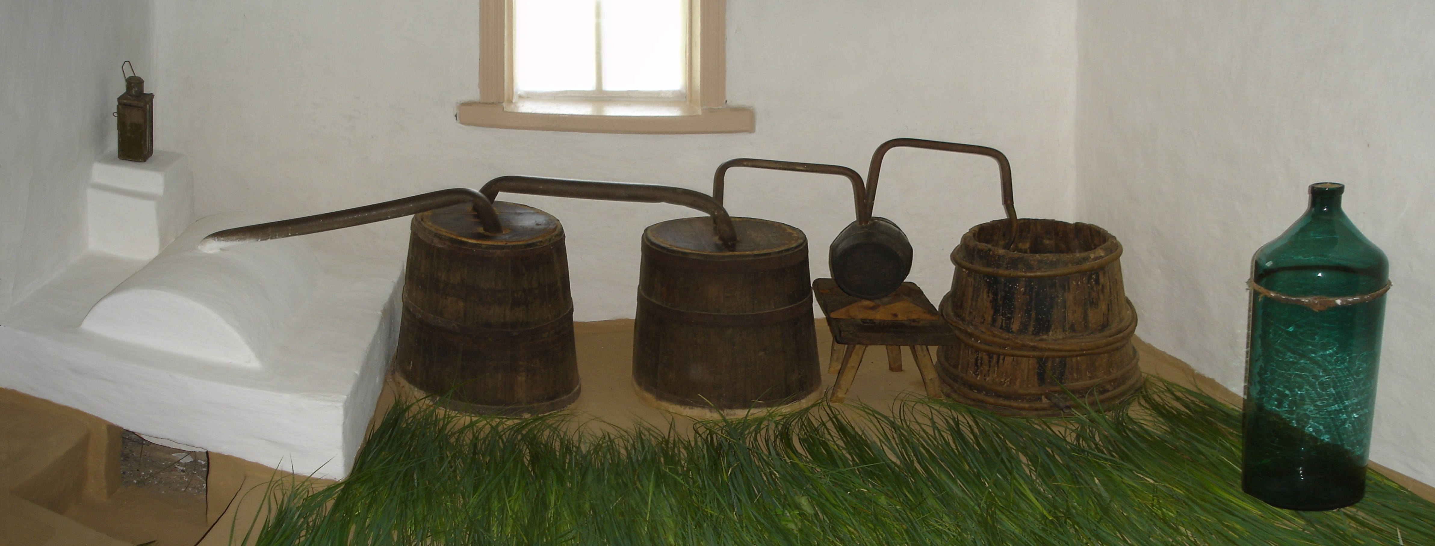 An old Ukrainian multi stage vodka still at the Museum of folk architecture and way of life of Middle Naddnipryanschina in Pereiaslav-Khmelnytskyi. It is in the building on the picture below (Other Versions).